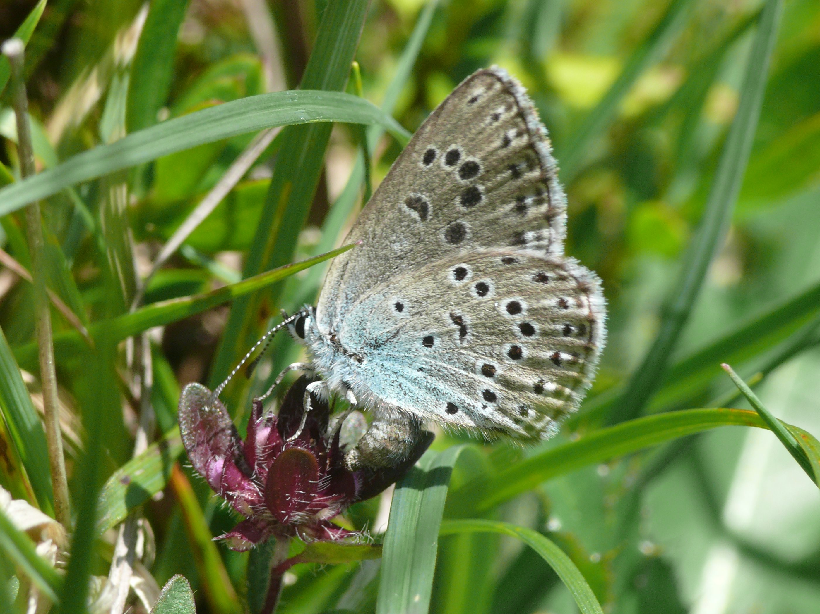 A Large Blue(Phengaris arion) laying an egg into a Thymus flower.